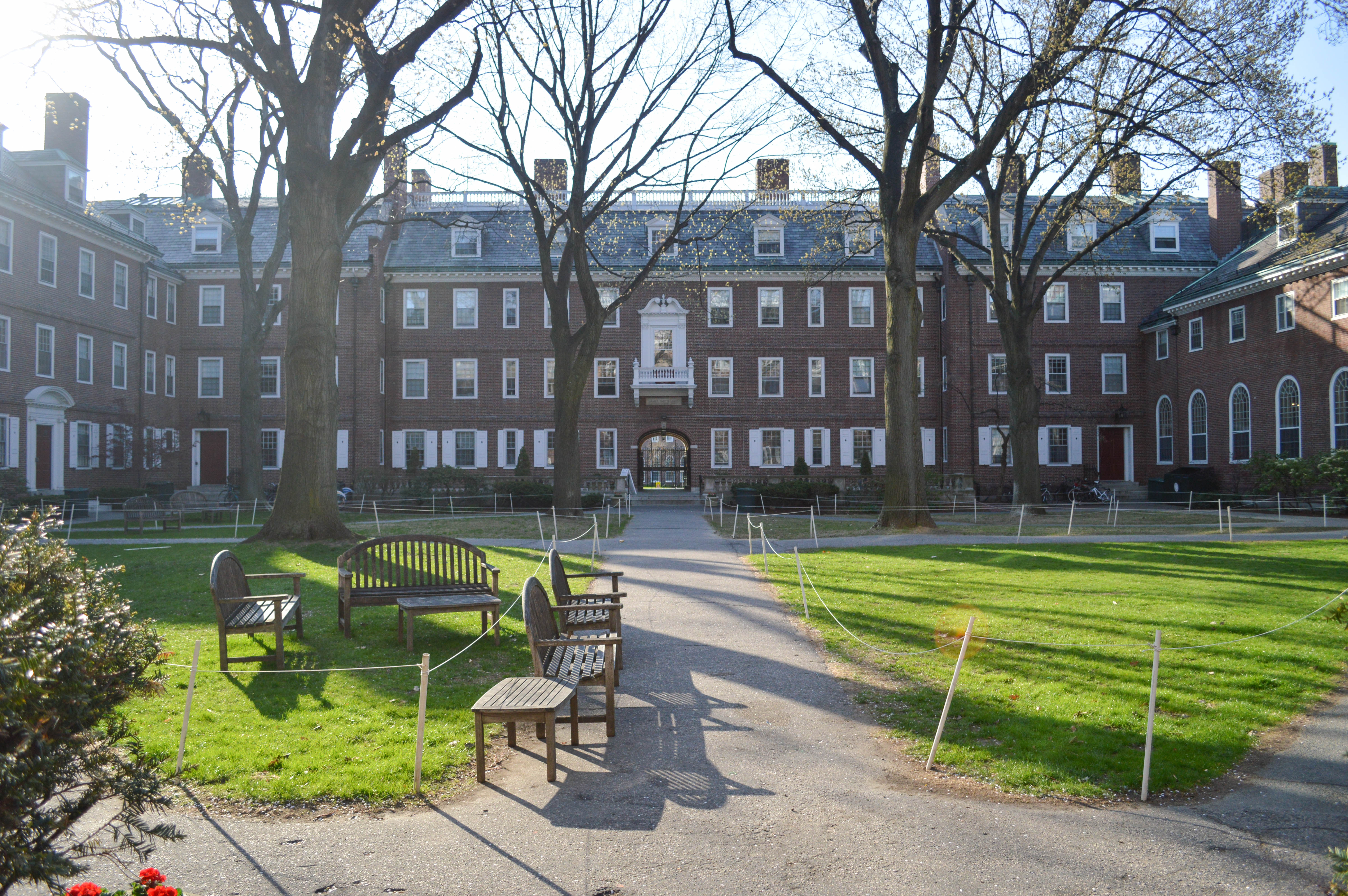 A view of Kirkland House in the morning, Spring 2015